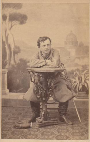 Olivier Le Gonidec de Tressan (1839